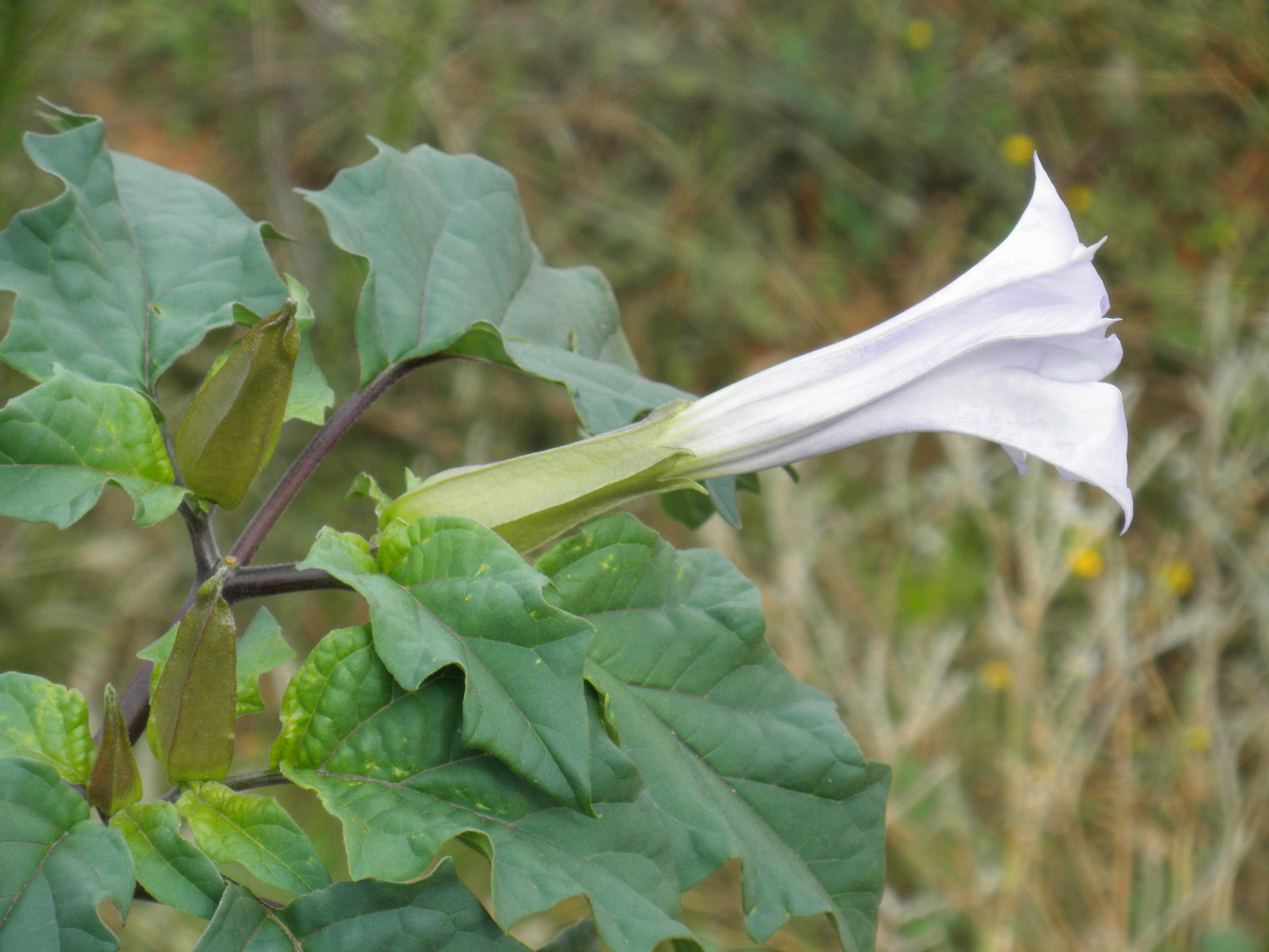 Datura stramonium flower close up, Dehesa Boyal de Puertollano, Spain